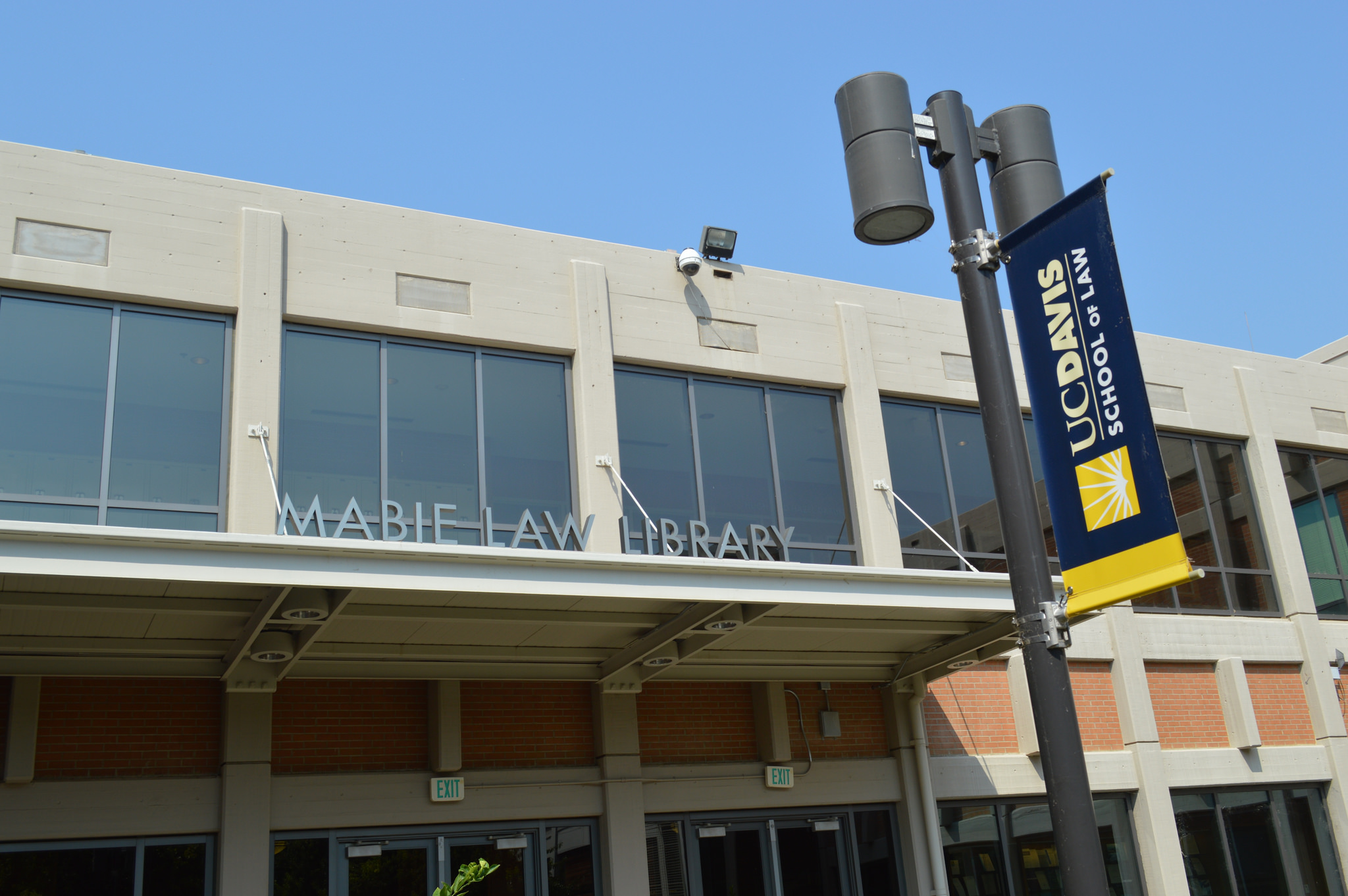 Exterior view of the Mabie Law Library